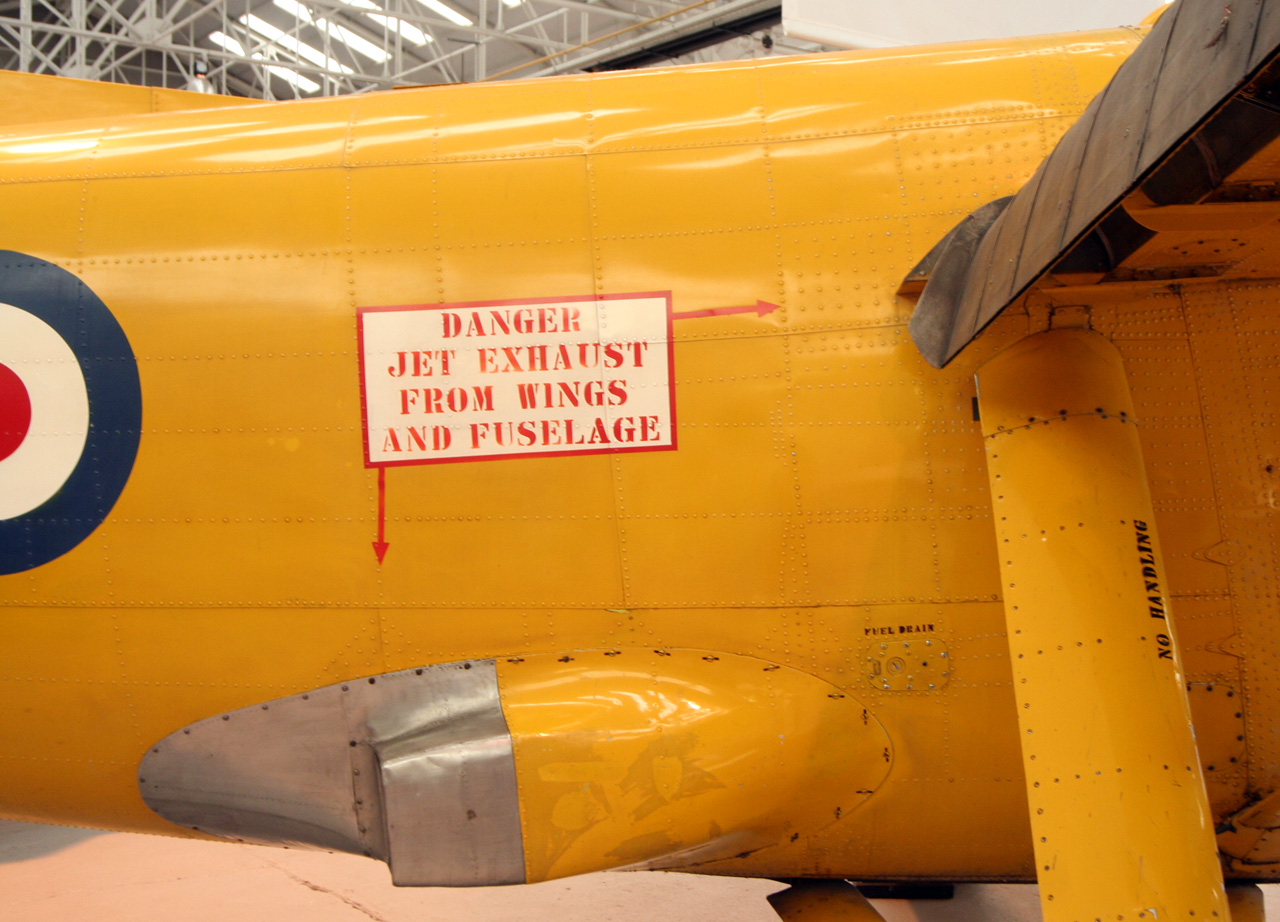 Hunting H126 RAF XN714 C/N H1-1 Low speed research aircraft.